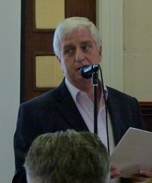 Liam Nevin speaking in Donaghpatrick, 31st July 2013